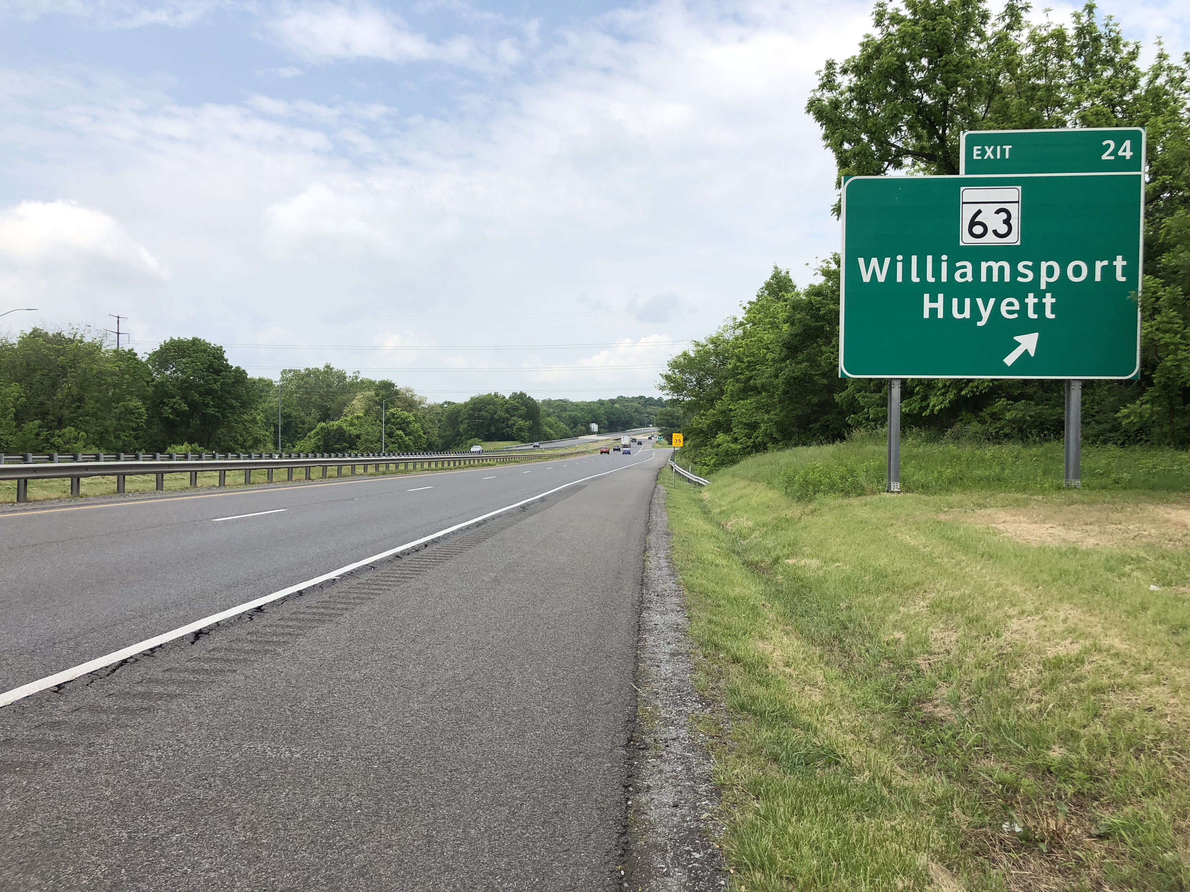 View west along Interstate 70 at Exit 24 (Maryland State Route 63, Williamsport, Huyett) in Kemps Mill, Washington County, Maryland